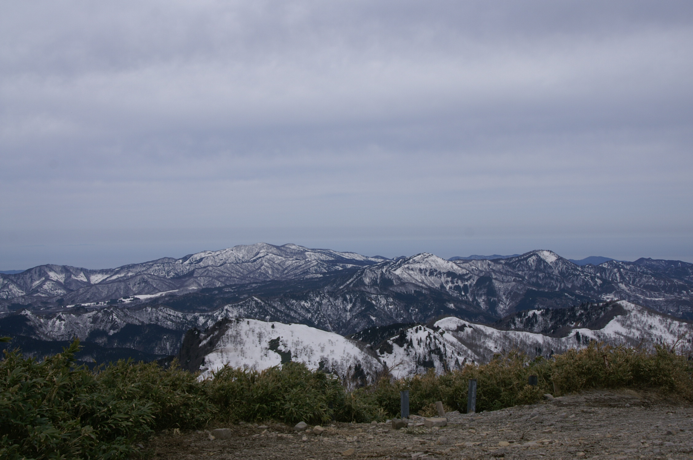 Oginosen seen from the southeast. Taken from Hyonosen.